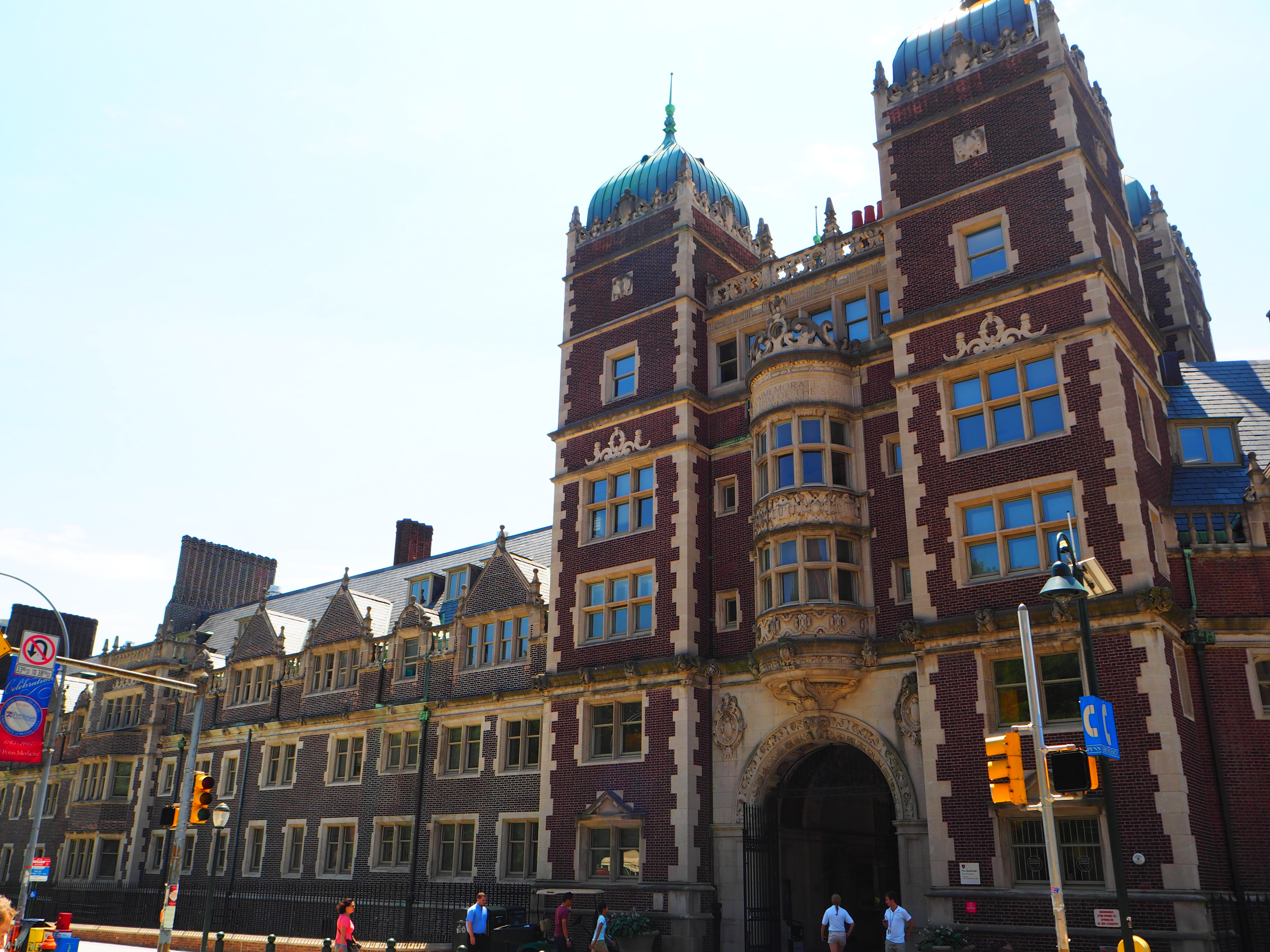 UPenn's campus